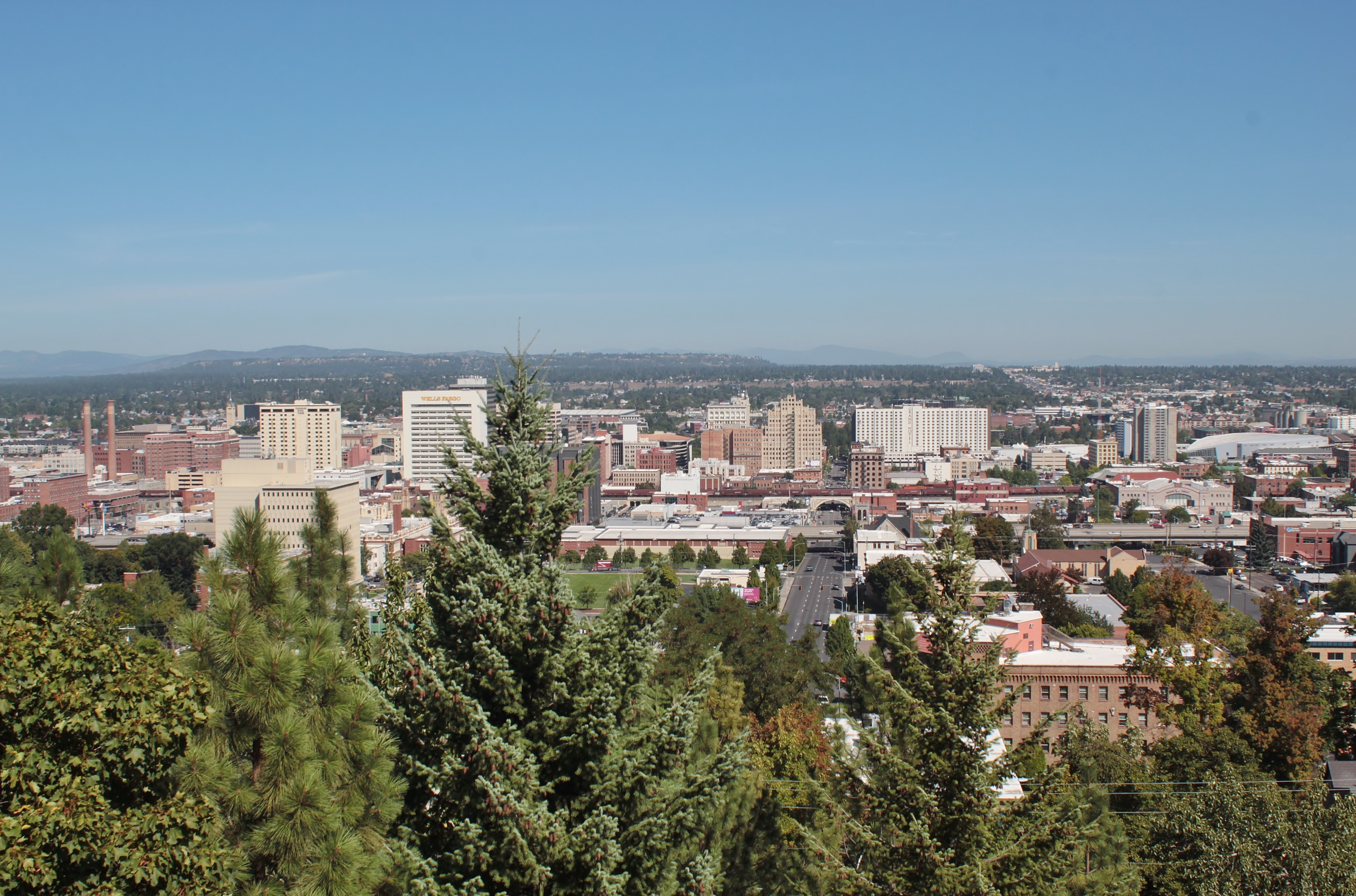 The downtown skyline of Spokane, the second largest city in the state of Washington, as seen from above Edwidge Woldson Park.